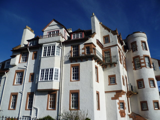 Ramsay Gardens from the Castle Esplanade